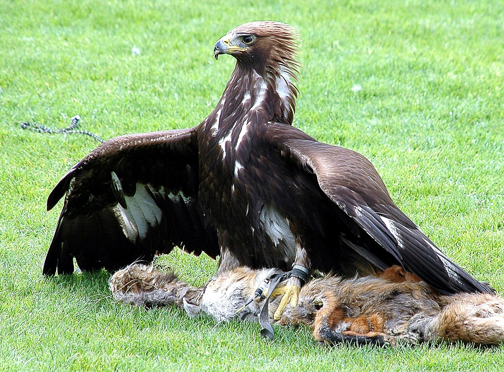 Eagle's Arena, Castle of Landskron, Carinthia, Austria